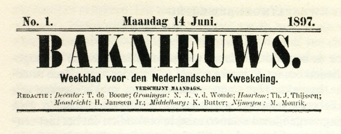 header of “Baknieuws”, weekly magazine for teachers in training – nr. 1, 14 June 1897